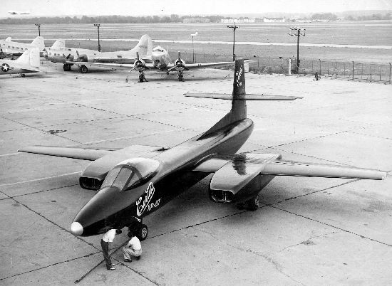 Curtiss XP-87 "Blackhawk" (later XF-87, 45-59600) on the airport ramp with C-47s and B-17s in background.